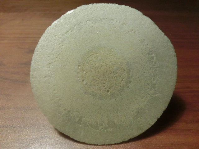 Japanese cheap candy ソースせんべい（sauce senbei）